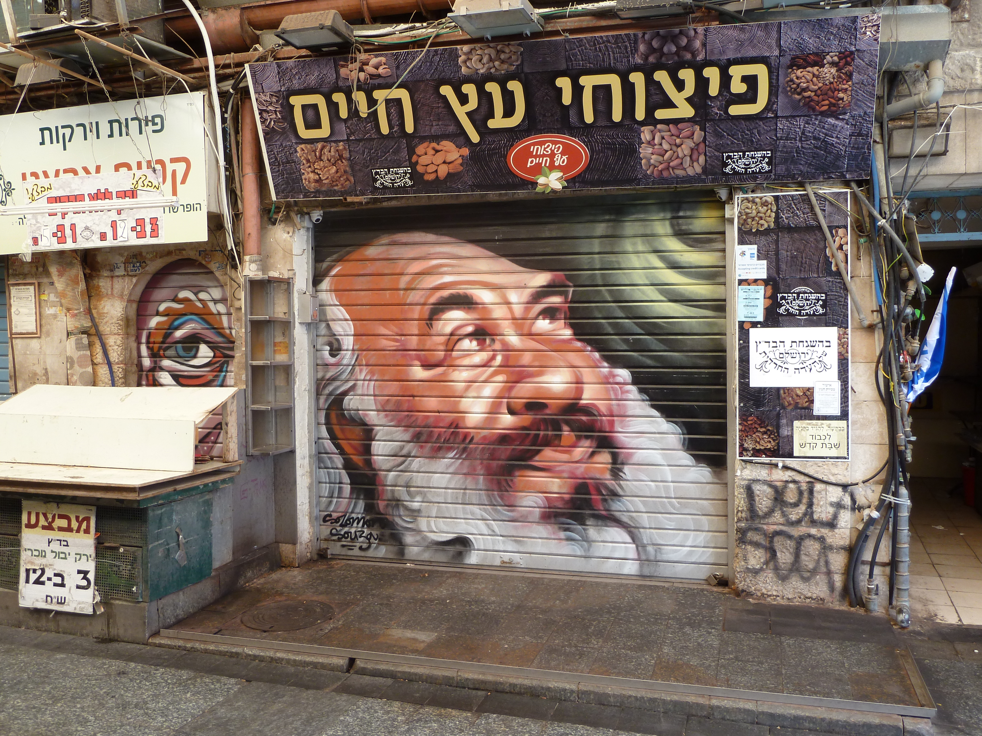 Jerusalem, Mahane Yehuda market, Etz Hayyim street, P1060207